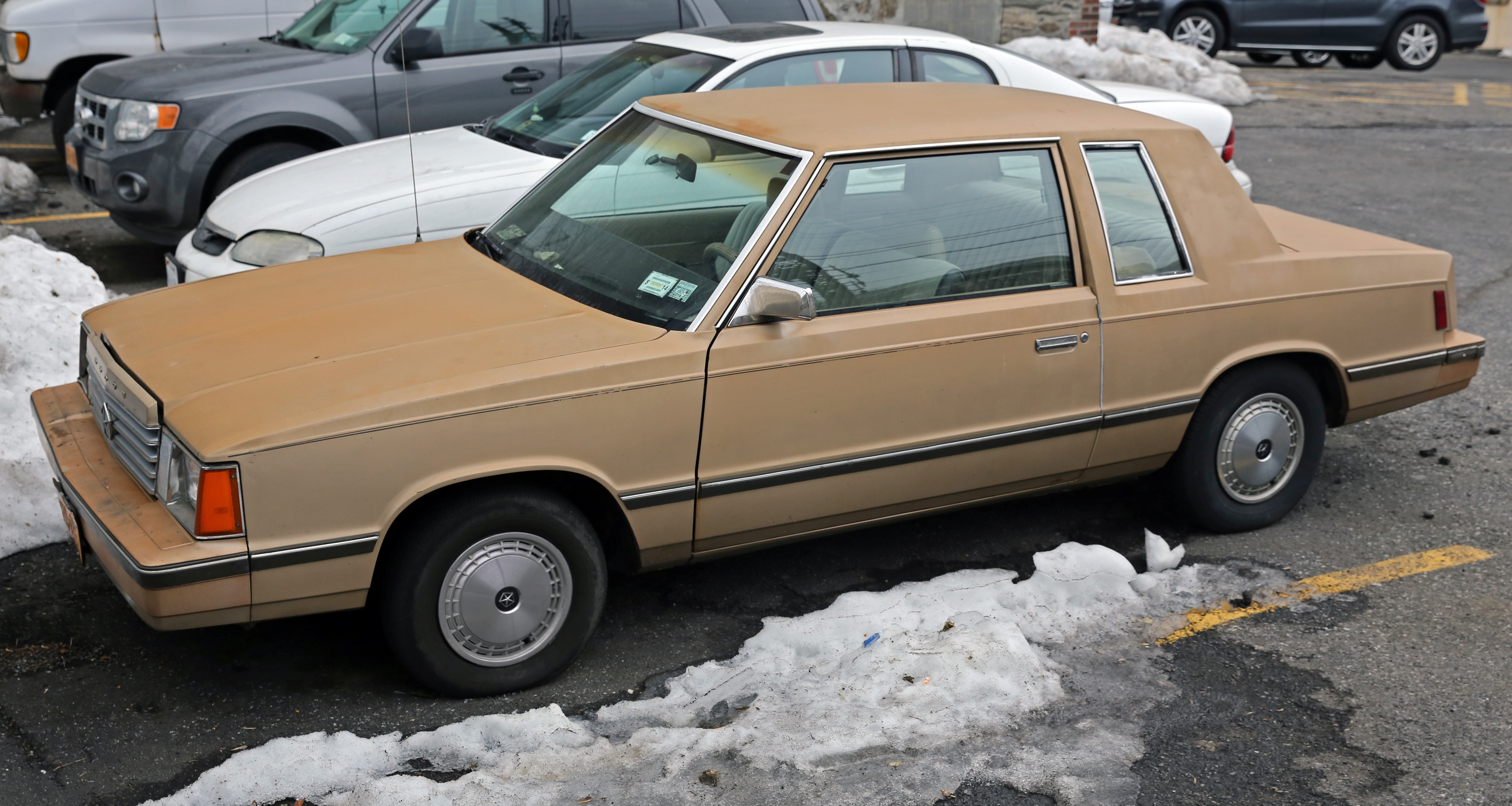 A 1984 Dodge Aries 2.2 coupe. Looks like a six-seater version, with the full sofa up front.